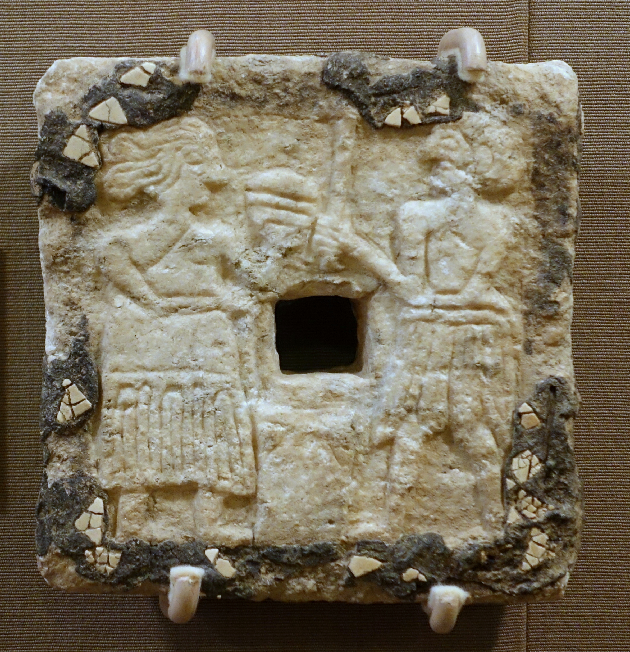 Exhibit in the Oriental Institute Museum, University of Chicago, Chicago, Illinois, USA. This work is old enough so that it is in the public domain.